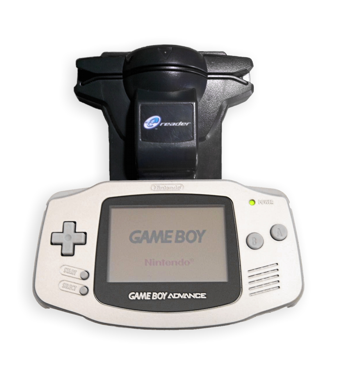 Game Boy Advance "Limited Edition Platinum" with Nintendo E-Reader